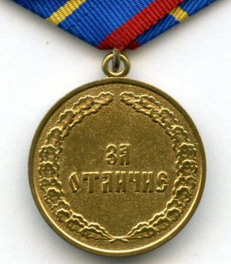 Federal Drug Control Service of Russia. Reverse of the Medal "For distinction in service in drug control agencies" 1st class.